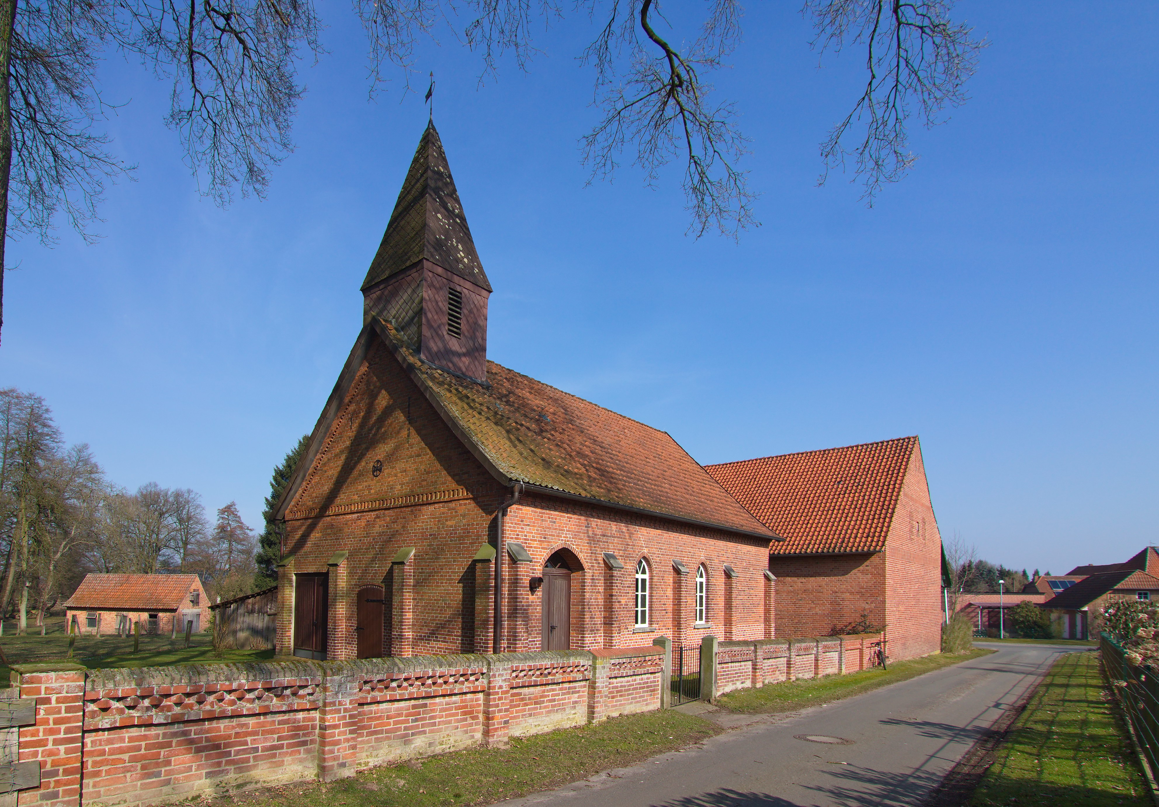 Kapelle von 1881 in Wendenborstel (Steimbke), Niedersachsen, Deutschland.